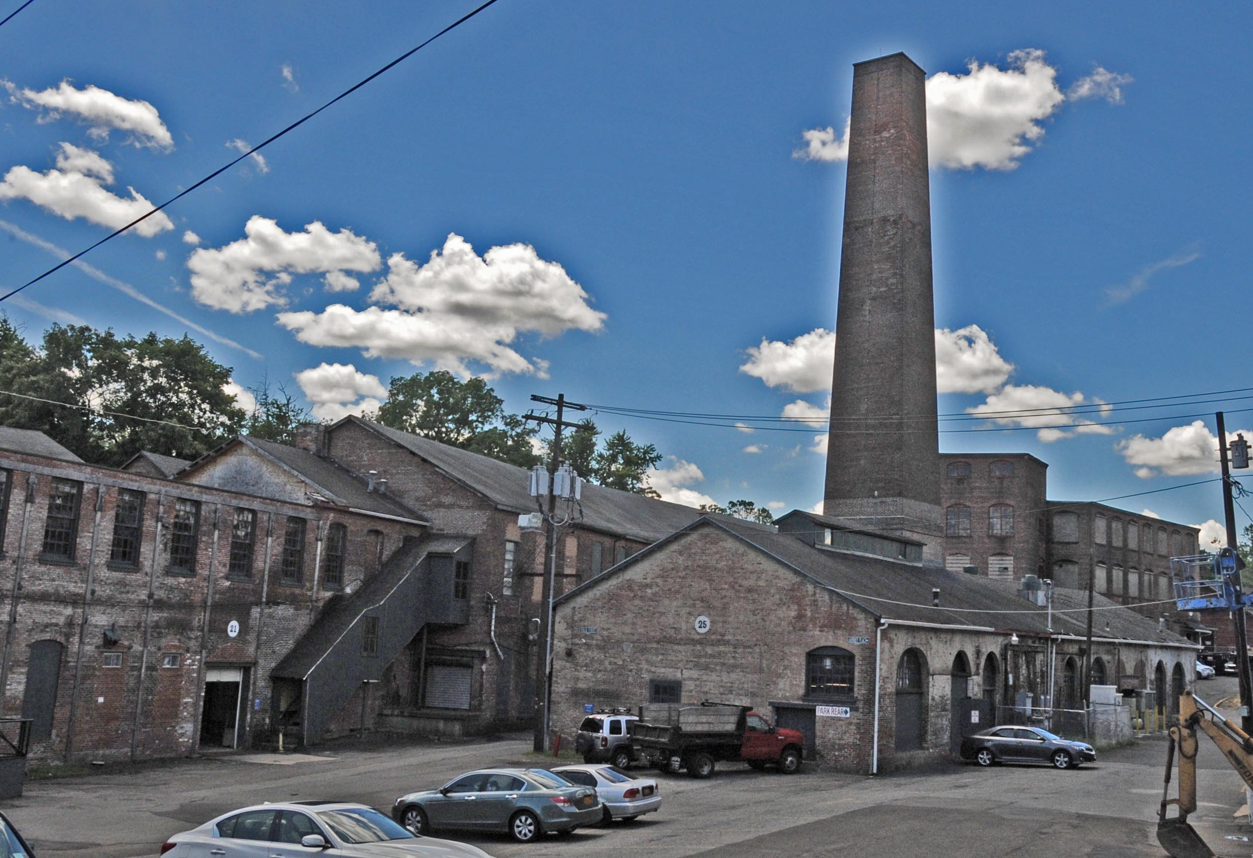 BUILT IN 1828 BY THE GARNER BROTHERS AS A CALICO PRINTING PLANT. 30 BUILDINGS ARE INCLUDED IN THE COMPLEX WHICH IS NOW KNOWN AS THE GARNERVILLE ARTS AND INDUSTRIAL CENTER.